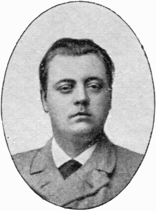 Karl Petrén (1868-1927), Seedish neurologist and professor of medicine at the universities of Uppsala and Lund.